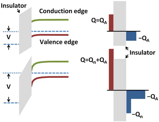 Bending of energy bands by an external electric field in a semiconductor. Original supplied by the author to Citizendium as Semiconductor band bending.PNG